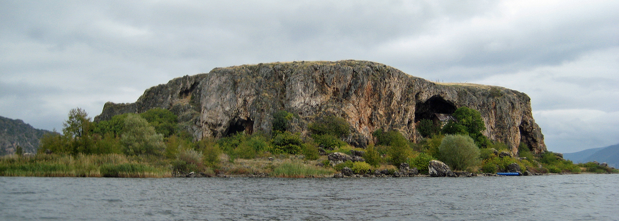 Island Maligrad in Lake Prespa, Albania